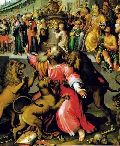 Martyrdom of St Ignatius of Antioch